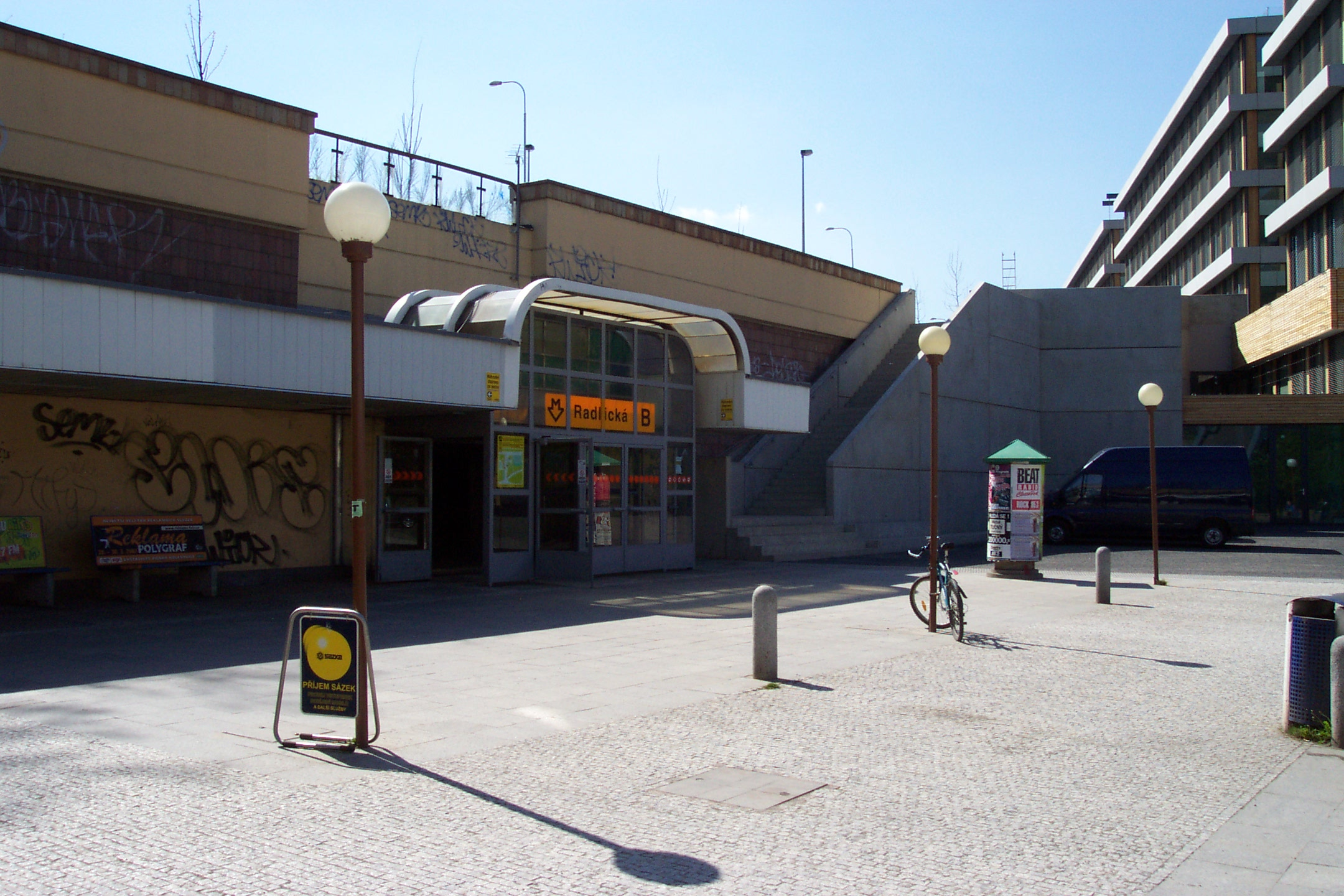 Prague, Radlická metro station